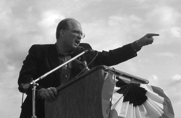 2004 Green Presidential Nominee David Cobb campaigning at Fighting Bob Fest, September, 2004, in Baraboo, Wisconsin.